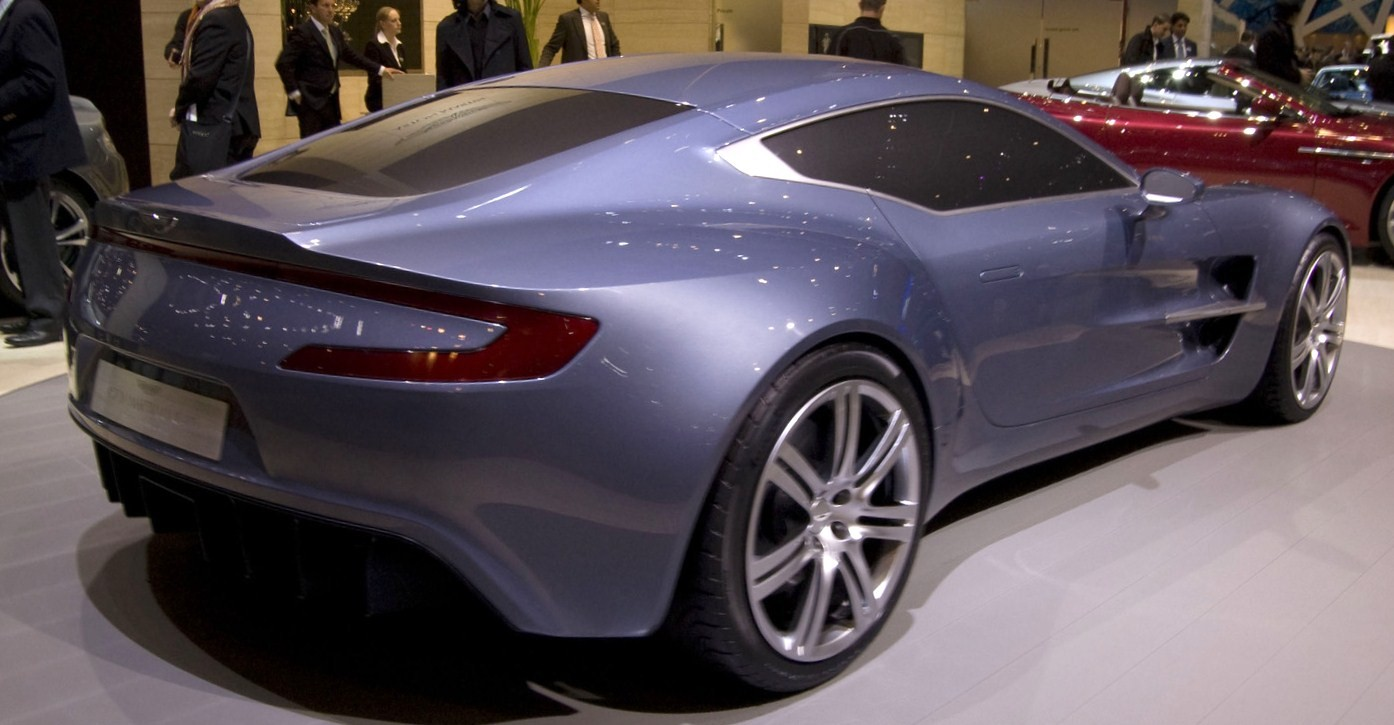 Aston Martin One-77